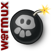 warmux logo